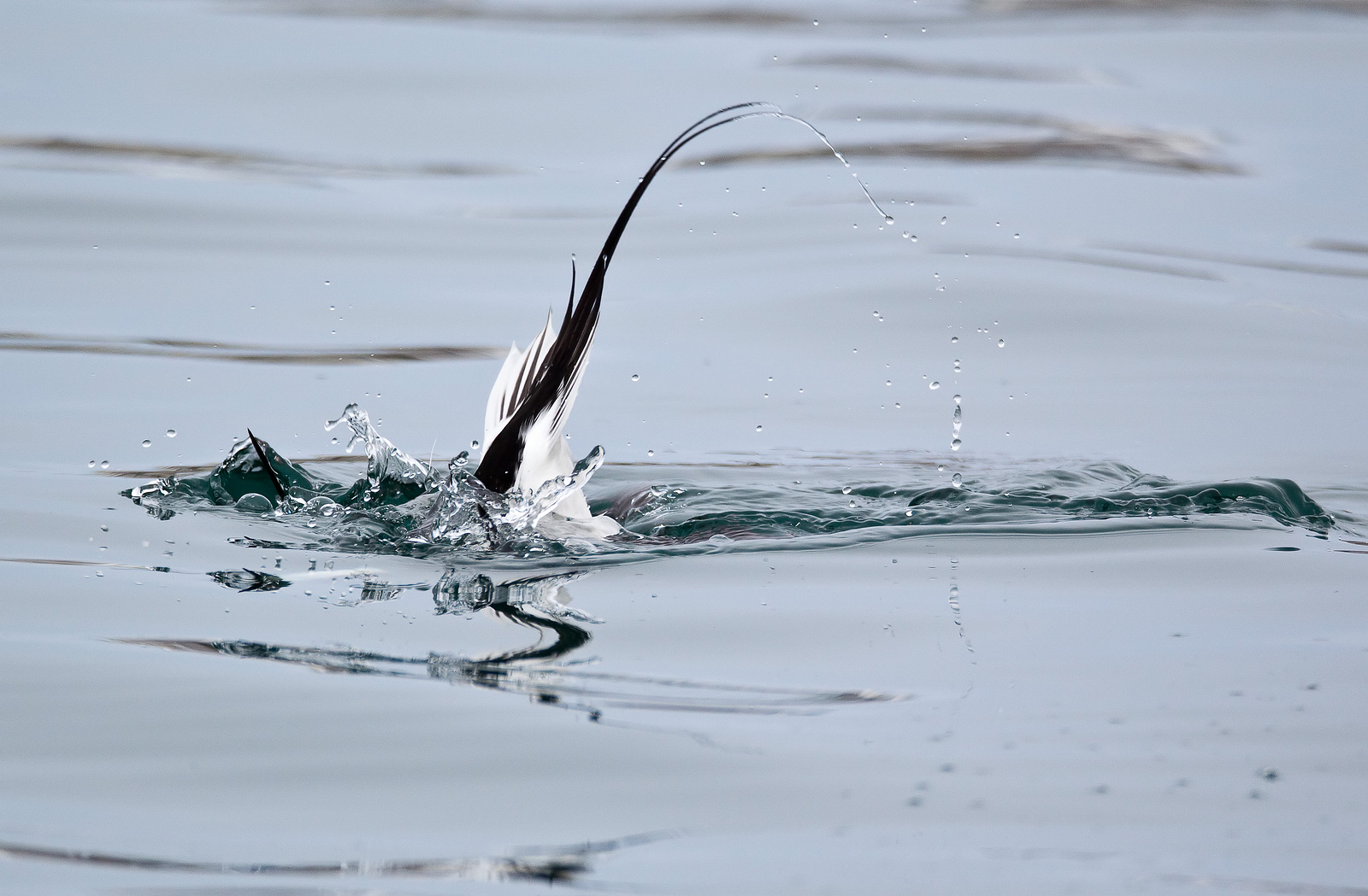 An adult male Long-tailed Duck in Hokkaido, Japan.